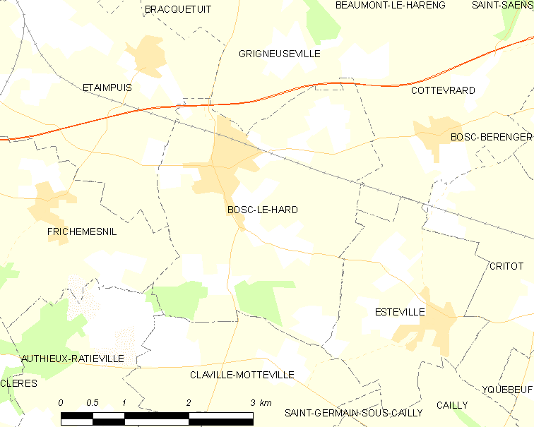 Map of French municipality Bosc-le-Hard